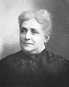 Portrait of Mary Isabel Gibson (née Cook) from History of the State of California and Biographical record of the Sacramento Valley, California, 1906, page 1449